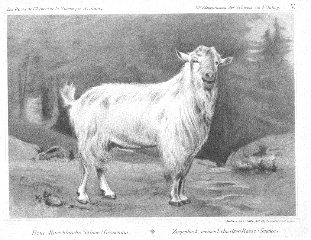 Extracted from the pdf at the Swiss National Library, itle: Les races de chèvres de la Suisse monogr. publ. sous les auspices de la Société romande pour l'amélioration du petit bétail ; par N. Julmy Author: Julmy, Nicolas Publisher: Lausanne [etc.] : Müller & Trub, 1896. - Call Number: nbdig-1690